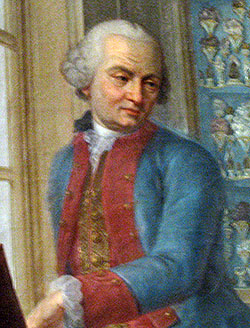 emperor Franz Stephan (sitting) together with his natural science advisors. From left to right: Gerard van Swieten, Johann Ritter von Baillou, Valentin Jamerai Duval (numismatist) and Abbé Johann Marcy